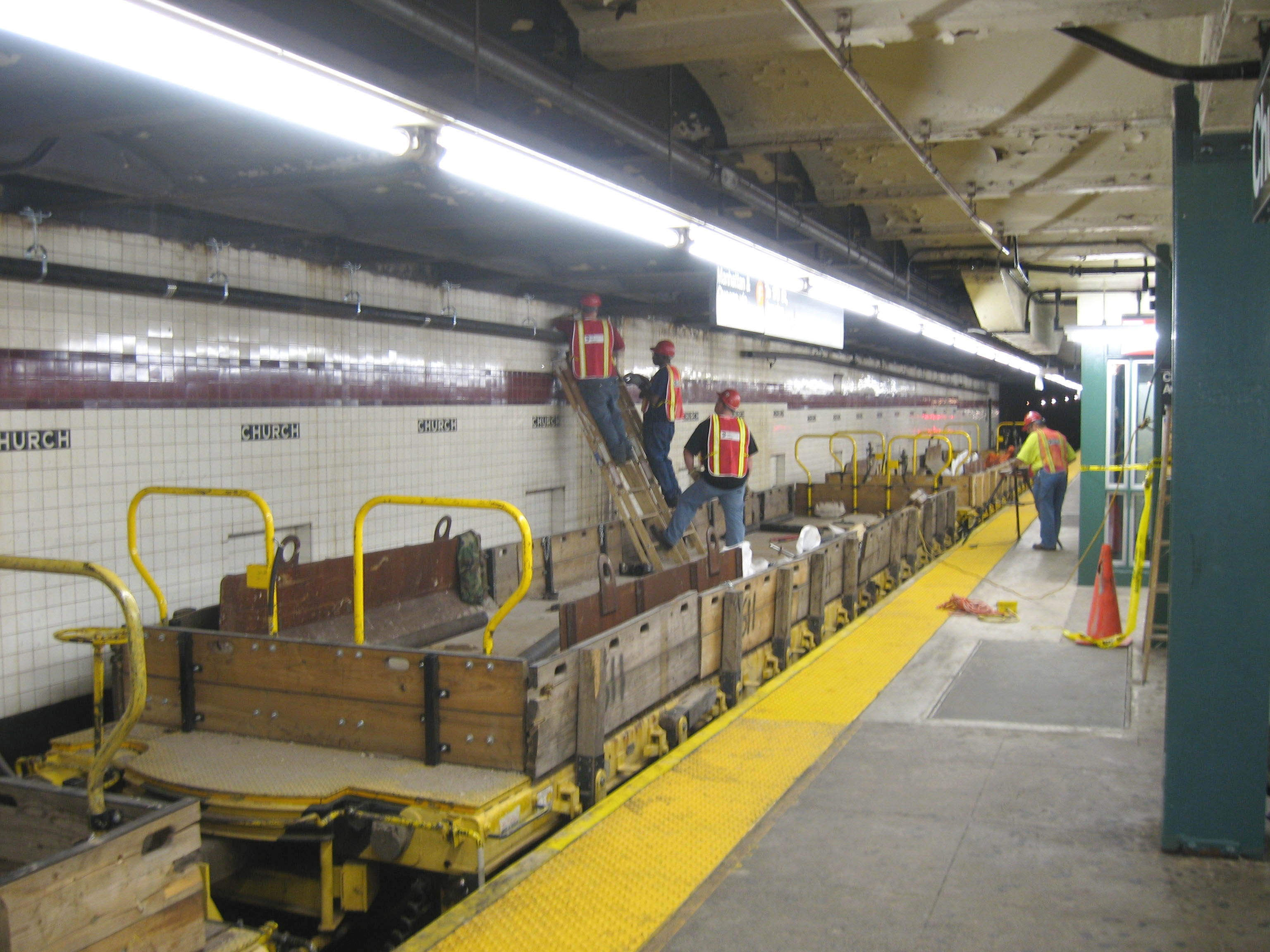 Lookng south as workers with a work train hang a pipe on the east wall of the Church Avenue IND station. See also Image:Church Av IND F worktrain jeh.JPG